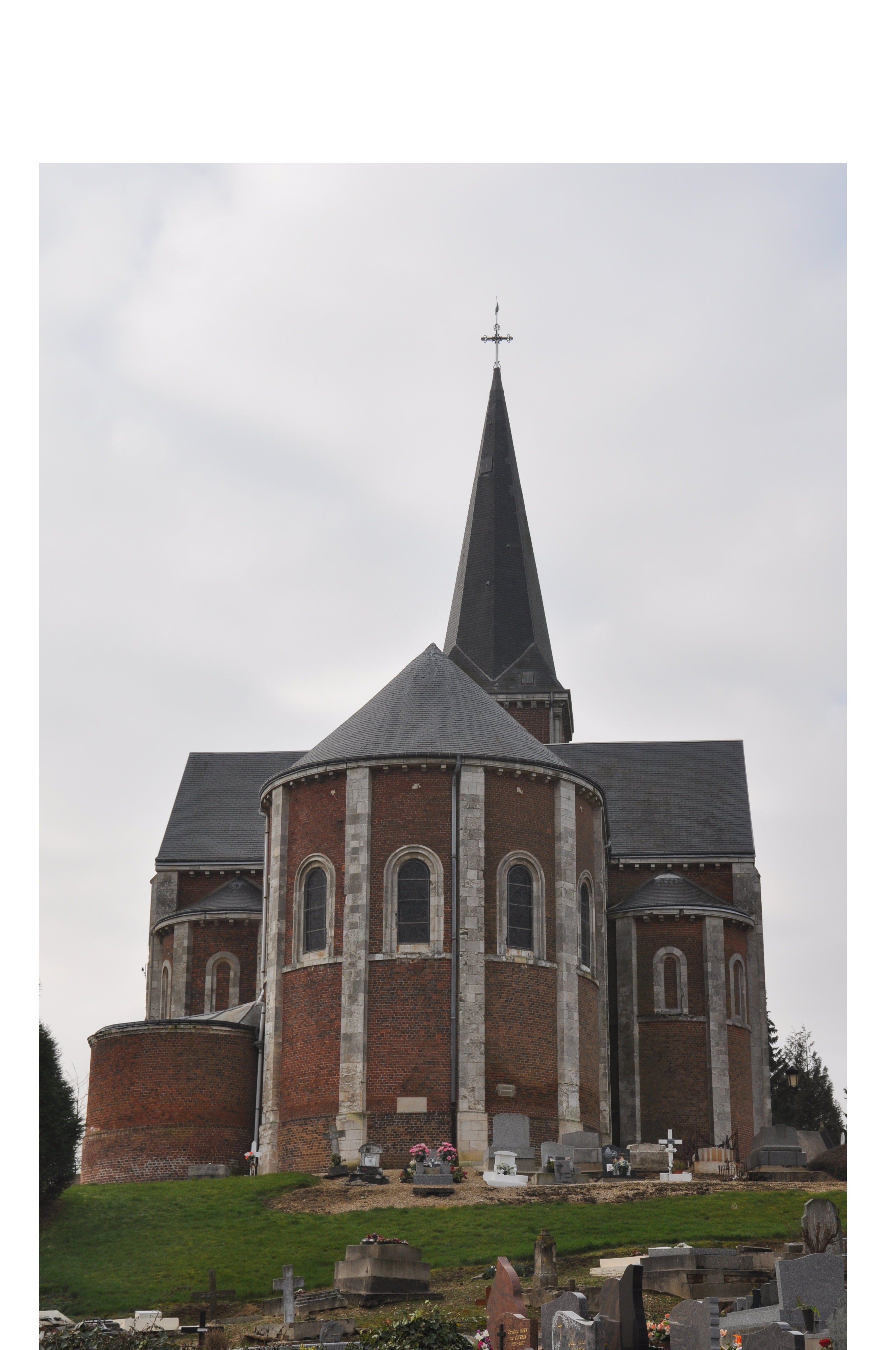 Church of Saint-Aubin-Routot (France,Normandy)